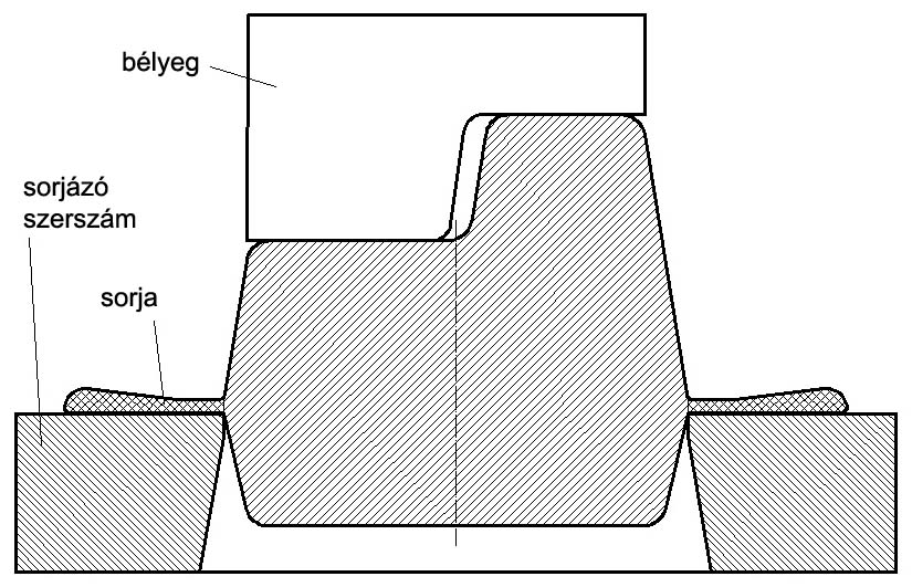 Trimming